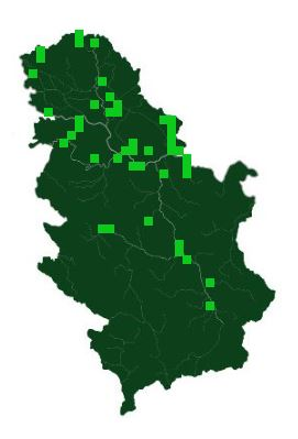 Rasprsotranjenje vrste u Srbiji (Alciphron)